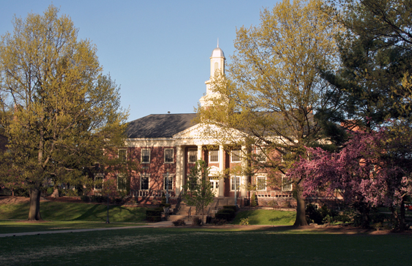 Photograph of Long Hall at Lycoming College